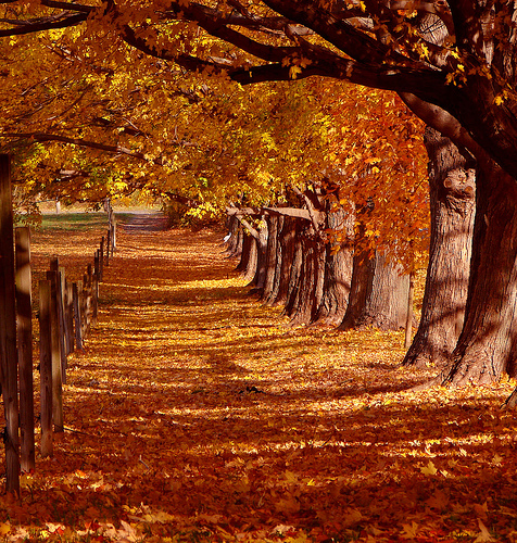 Autumn in a Philadelphia neighborhood